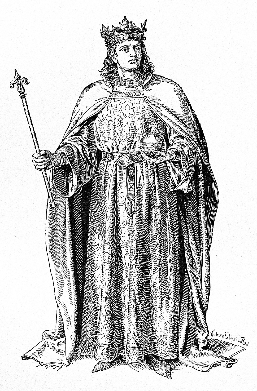 Przemysł, King of Poland